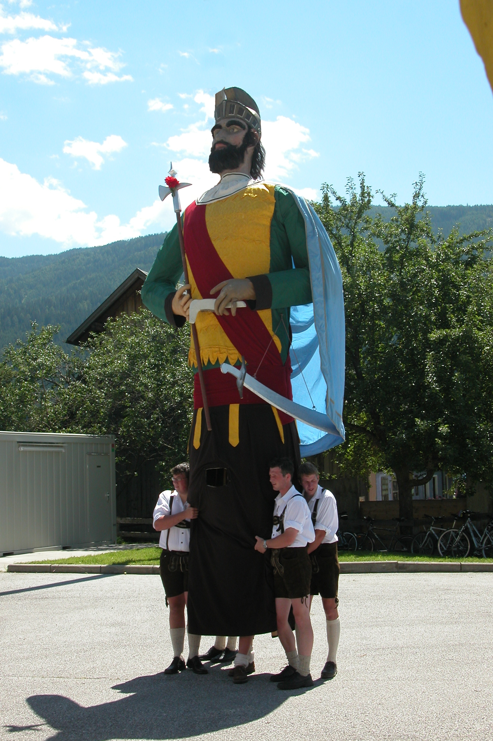 Samson from Unternberg